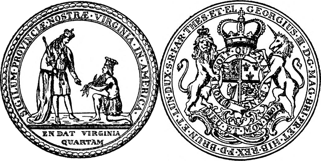 Engraving depicting the Great Seal of Virginia under King George III of England, with obverse (at left) and reverse (at right).